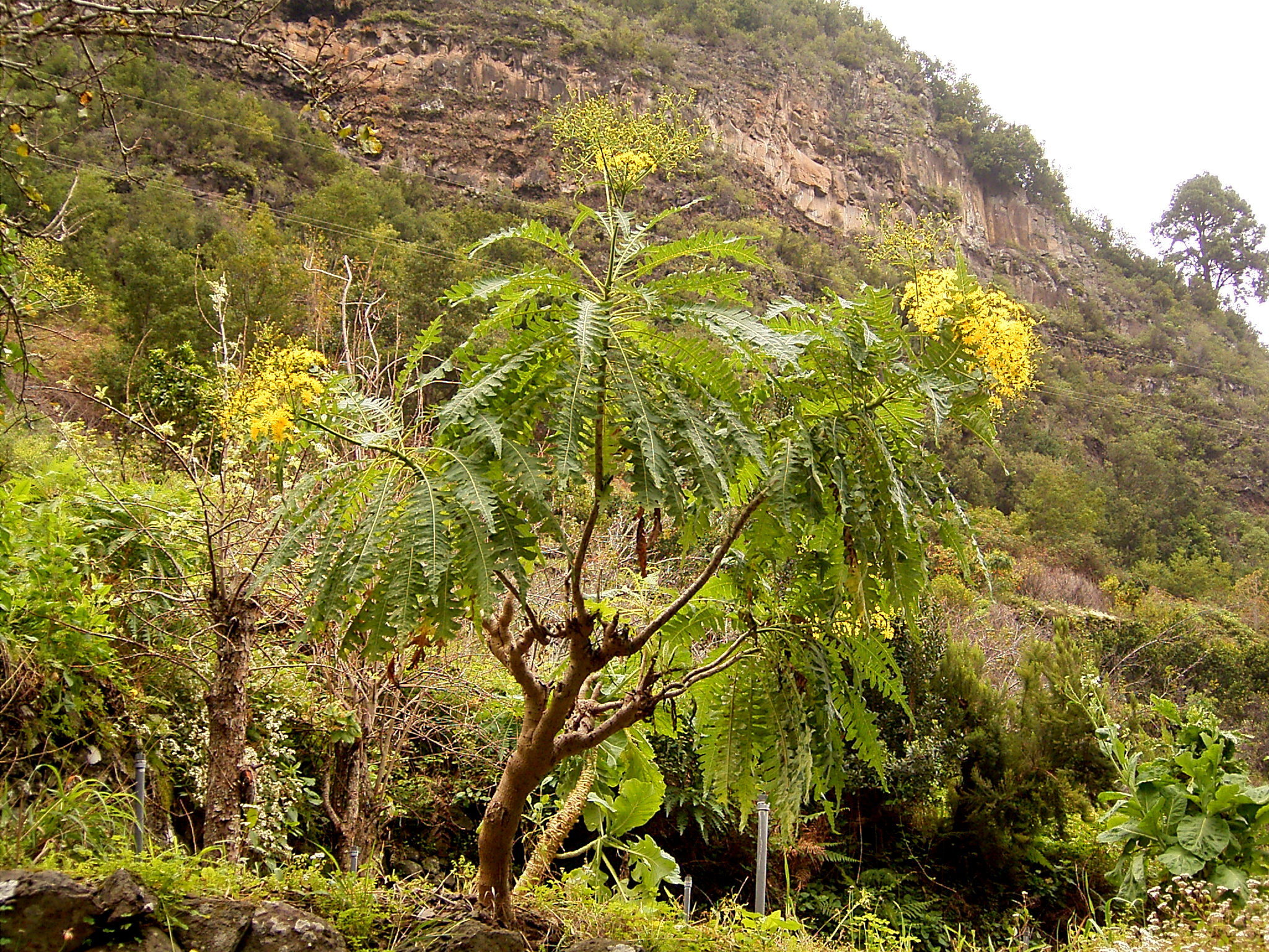 Sonchus palmensis growing in Los Tilos forest in San Andrés y Sauces, La Palma, Canary Islands